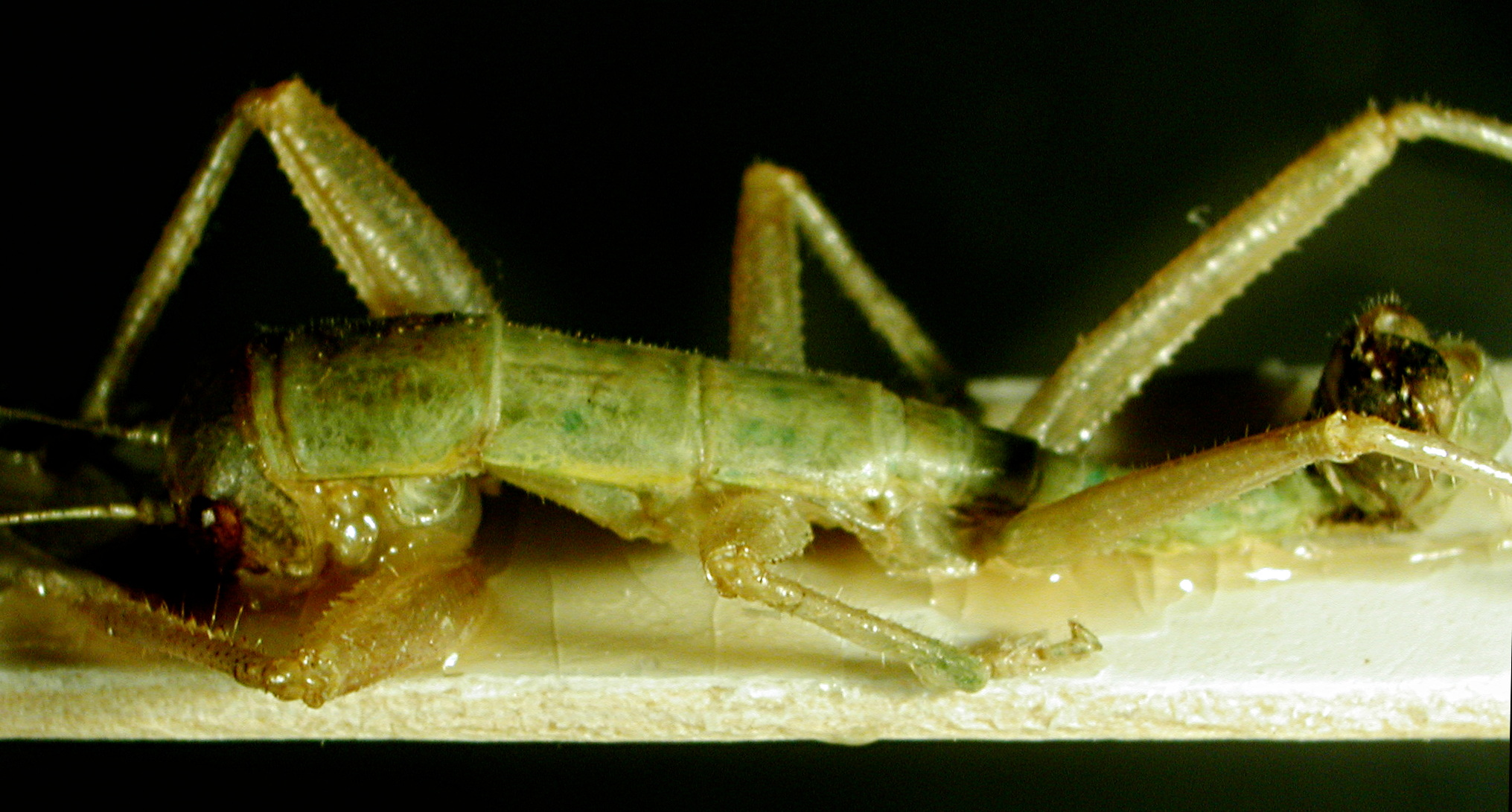 Mantophasmatodea; Zompro, Klass, Kristensen & Adis, 2002; larva taken in the Zoologische Staatssammlung München